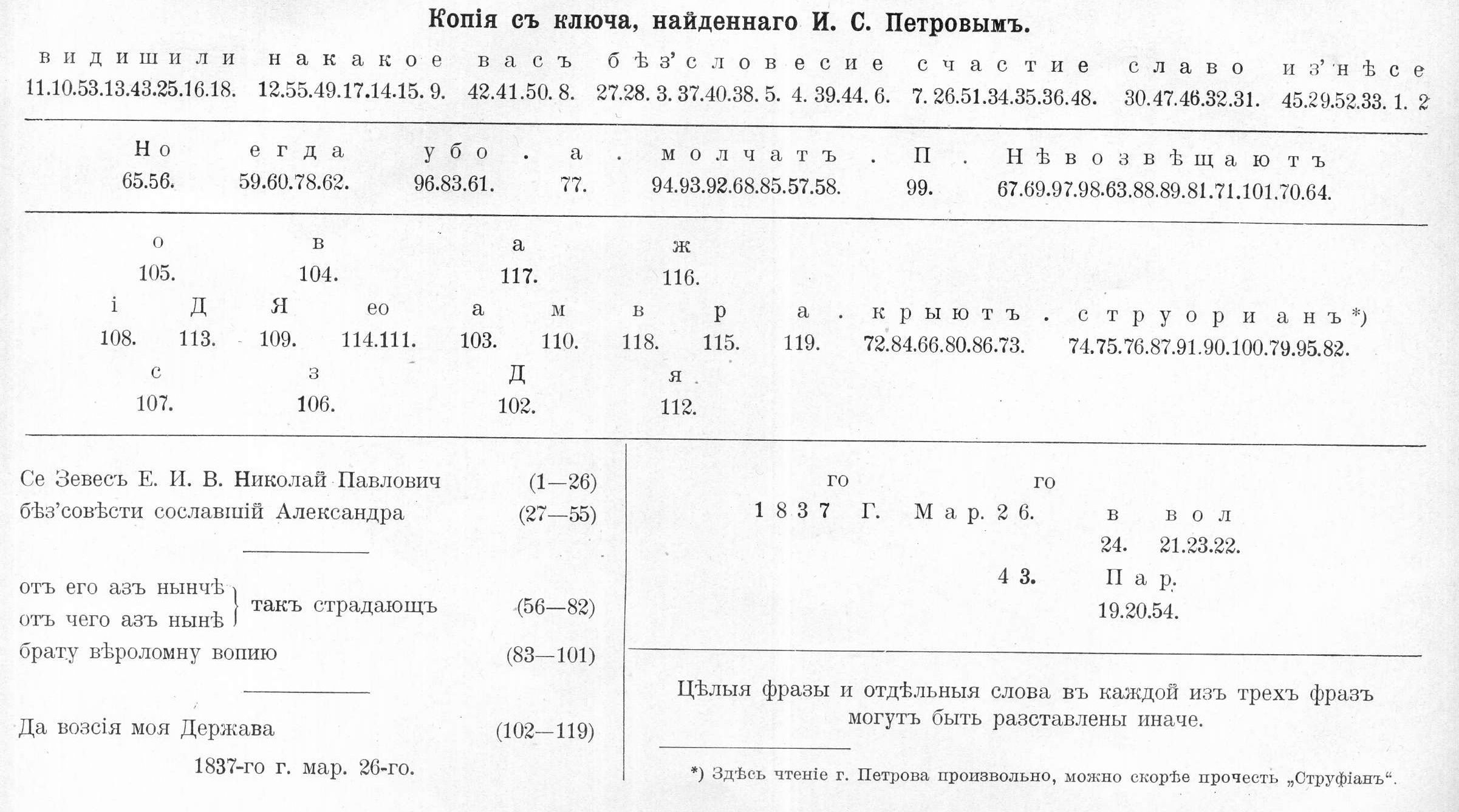 Key to the secret of Feodor Kuzmich